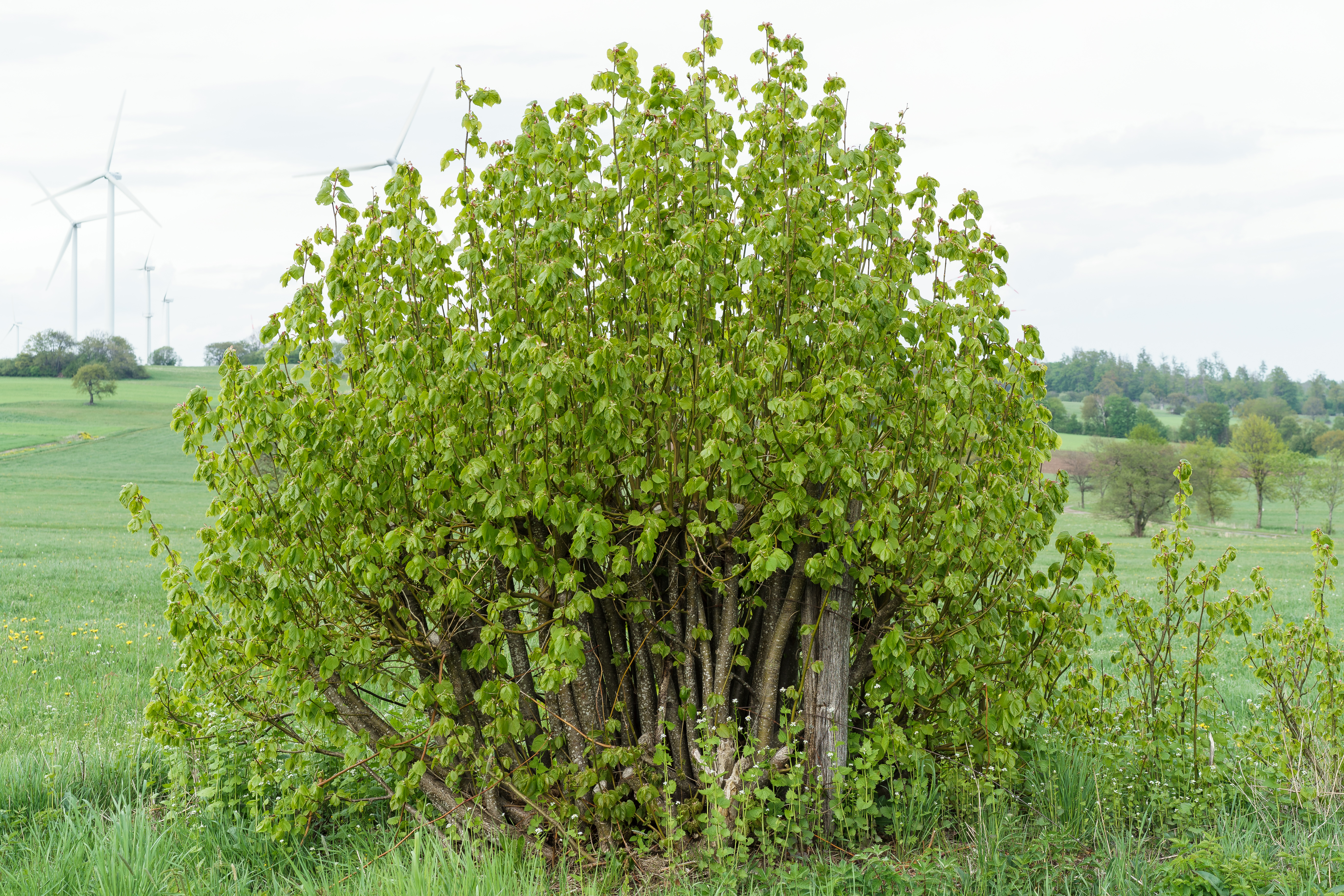 Tilia - after Pollarding, Vogelsberg Mountains